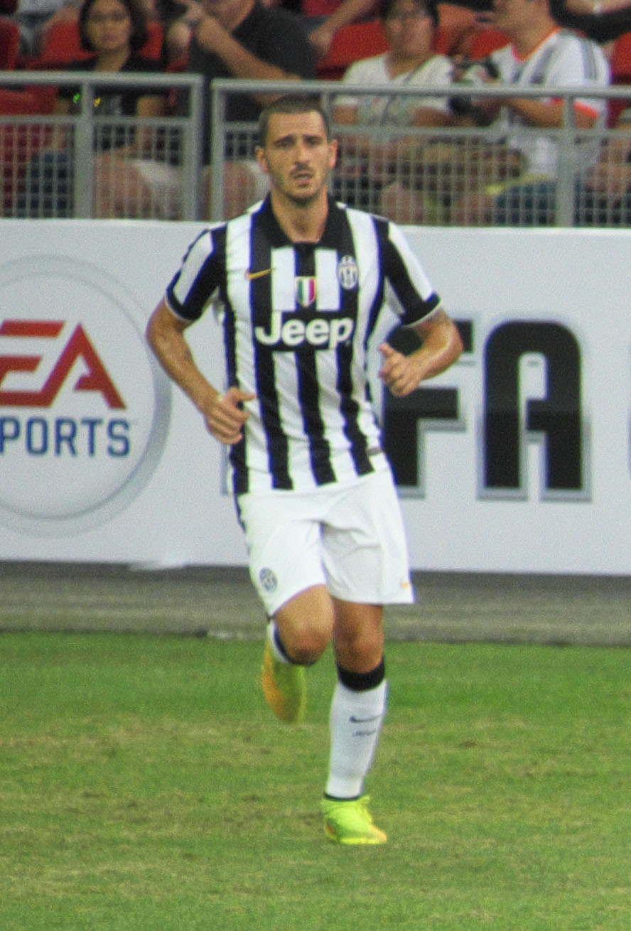 Singapore Selection vs Juventus @ National Stadium, 2014. Bianconeri's defender Leonardo Bonucci.